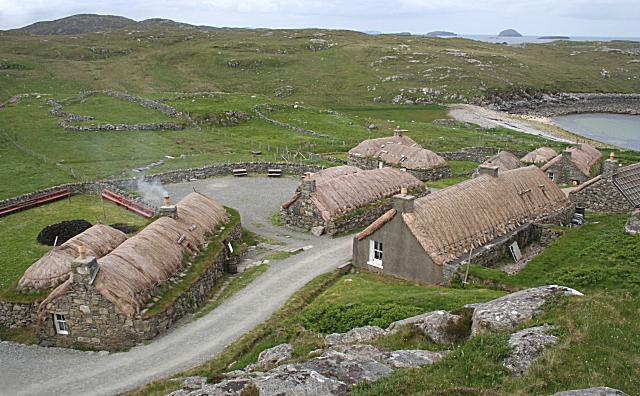 Na Gearranan Na Gearranan (Garenin) was a living village until 1974, when the last residents moved out into council houses. It has been restored, more or less sympathetically apart from windows in some of the thatched roofs. The house at extreme left is the museum, which is set out as it would have been in the mid-20th century. The nearest house on the right is now a hostel; when I visited in 1970 I was invited into this house for a cup of tea by the lady who lived in it. The smaller house in the middle now houses the office and an exhibition with an audio-visual presentation.